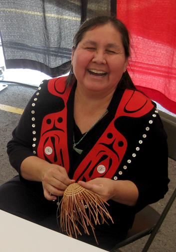 Diane Douglas-Willard, Haida basket weaver and educator from Ketchikan, Alaska